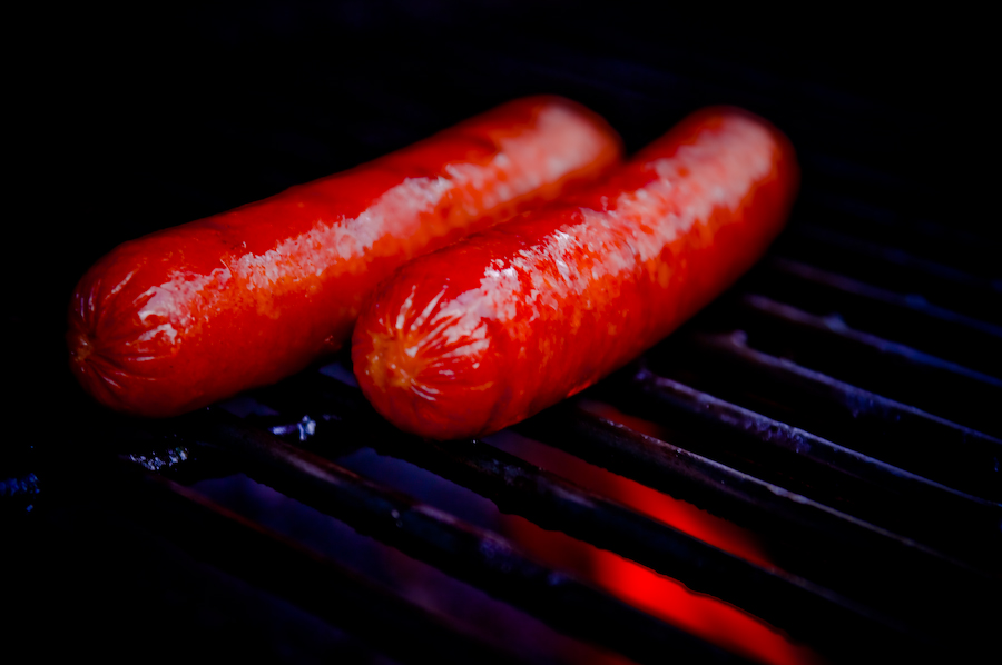 Hot Dogs on a Grill